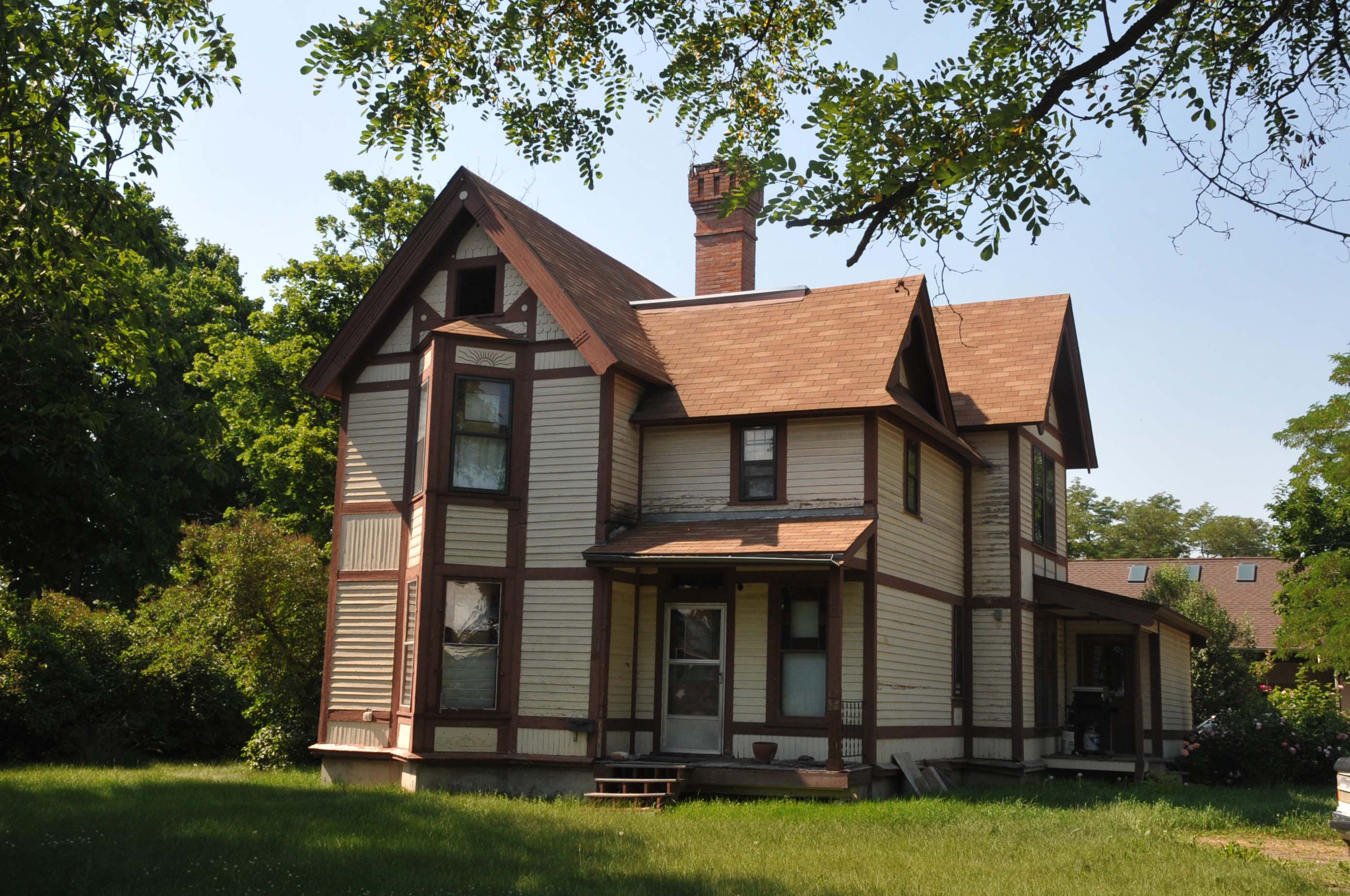 HOUSE WAS BUILT IN 1892 FOR GEORGE MCVEY FISHER IN A STICK/EASTLAKE STYLE. FISHER WAS A PIONEERING PRESBYTERIAN PREACHER IN MONTANA, FIRST IN MISSOULA AND THEN THE FLATHEAD VALLEY AREA.